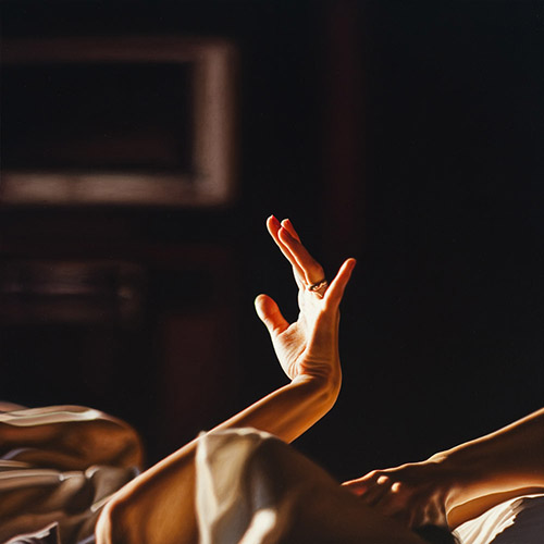 Atmosphere, a Painting by Damian Loeb, 2010 36x36in Oil on Linen